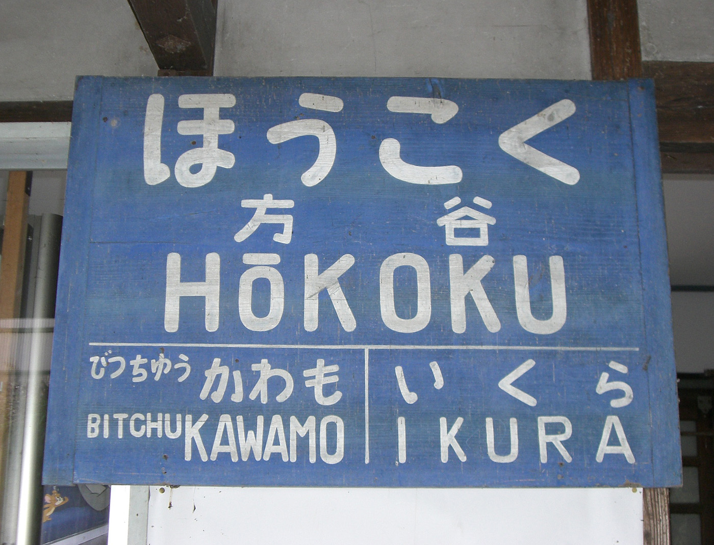 West Japan Railway Hokoku Station label of old Japanese National Railways type